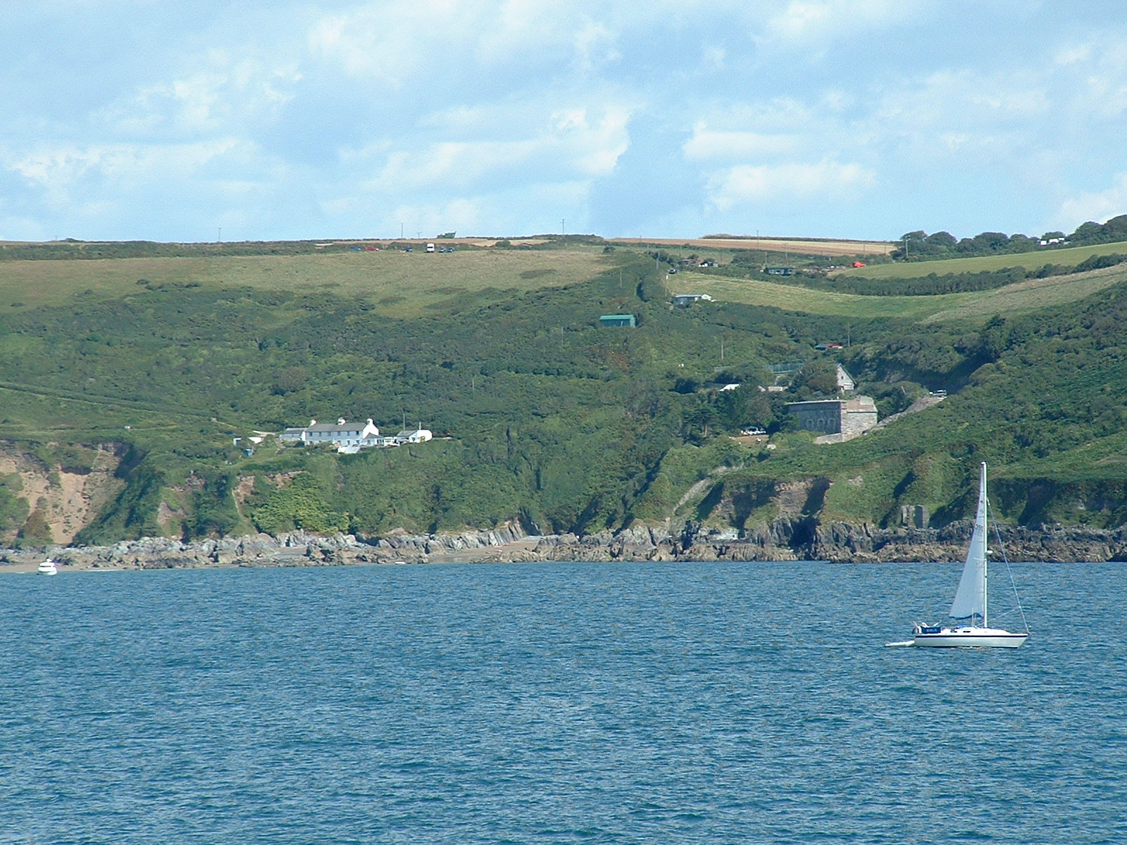 Rame, near Plymouth Rame, from the sea off the western side of the Rame peninsula.